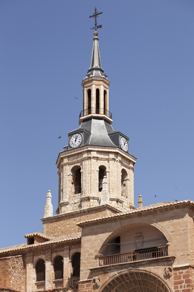 Ref: PM_100280_E_Manzanares.jpg; torre; Manzanares; Templo de la Asunción; Castilla-la Mancha, Ciudad Real; Spain; Cultural heritage; Europe/Spain/Manzanares; photo: Paul M.R.Maeyaert; © Paul M.R. Maeyaert